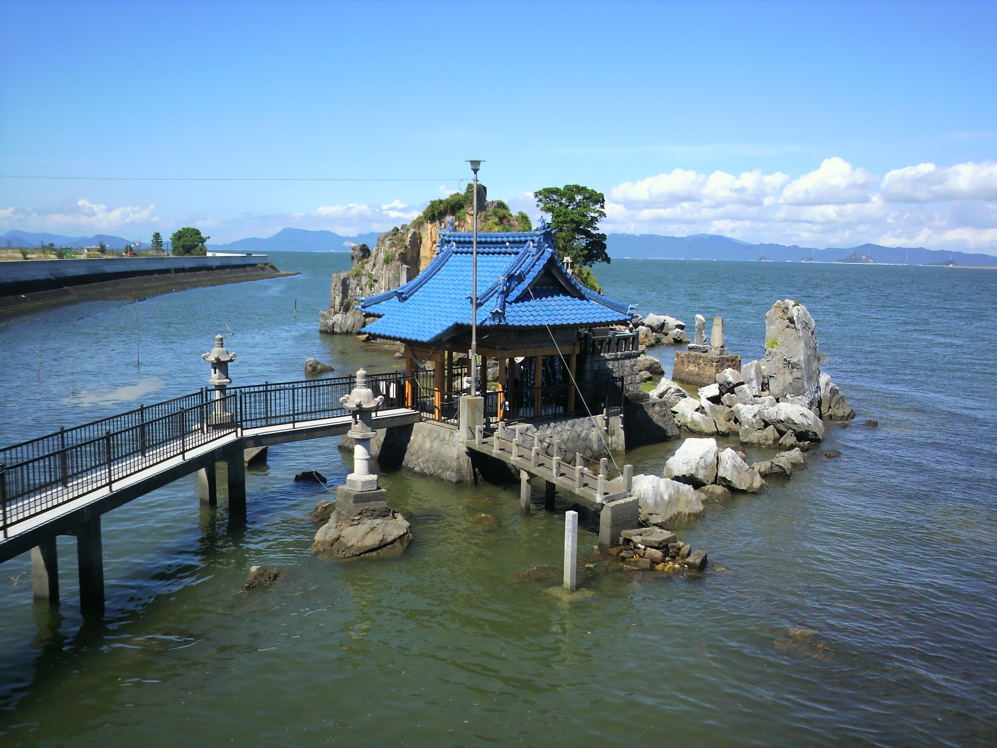 Mizushima (水島) is an uninhabited island of Japan located near the bank of Kumagawa River estuary in Yatsushiro, Kumamoto Prefecture.